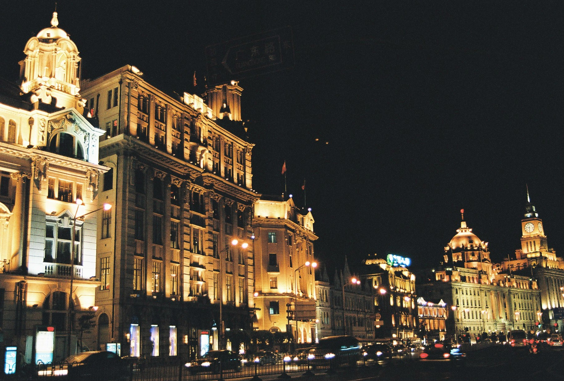 The Bund, Shanghai